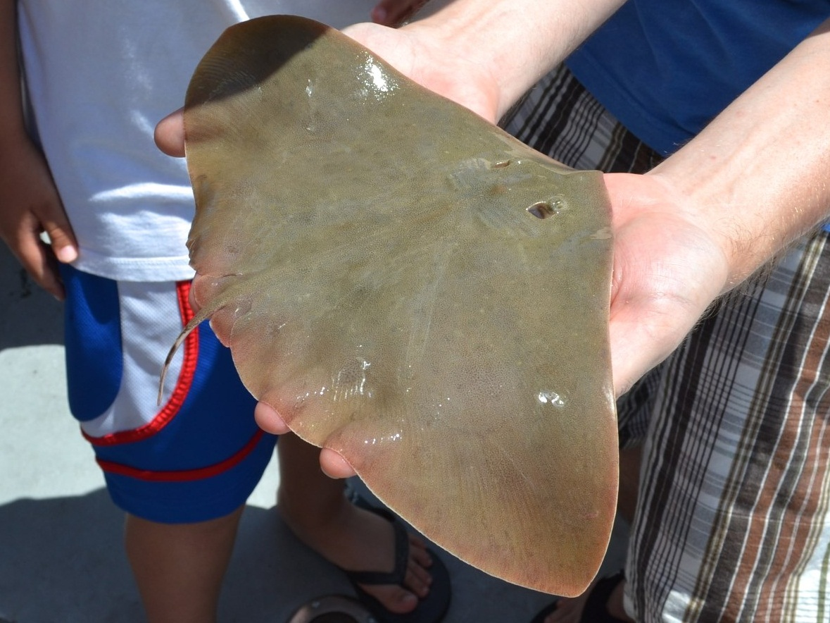 Smooth butterfly ray (Gymnura micrura)